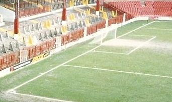 Goal line at the Stretford End at Old Trafford in 1992, seen from a VIP-box (use it free)